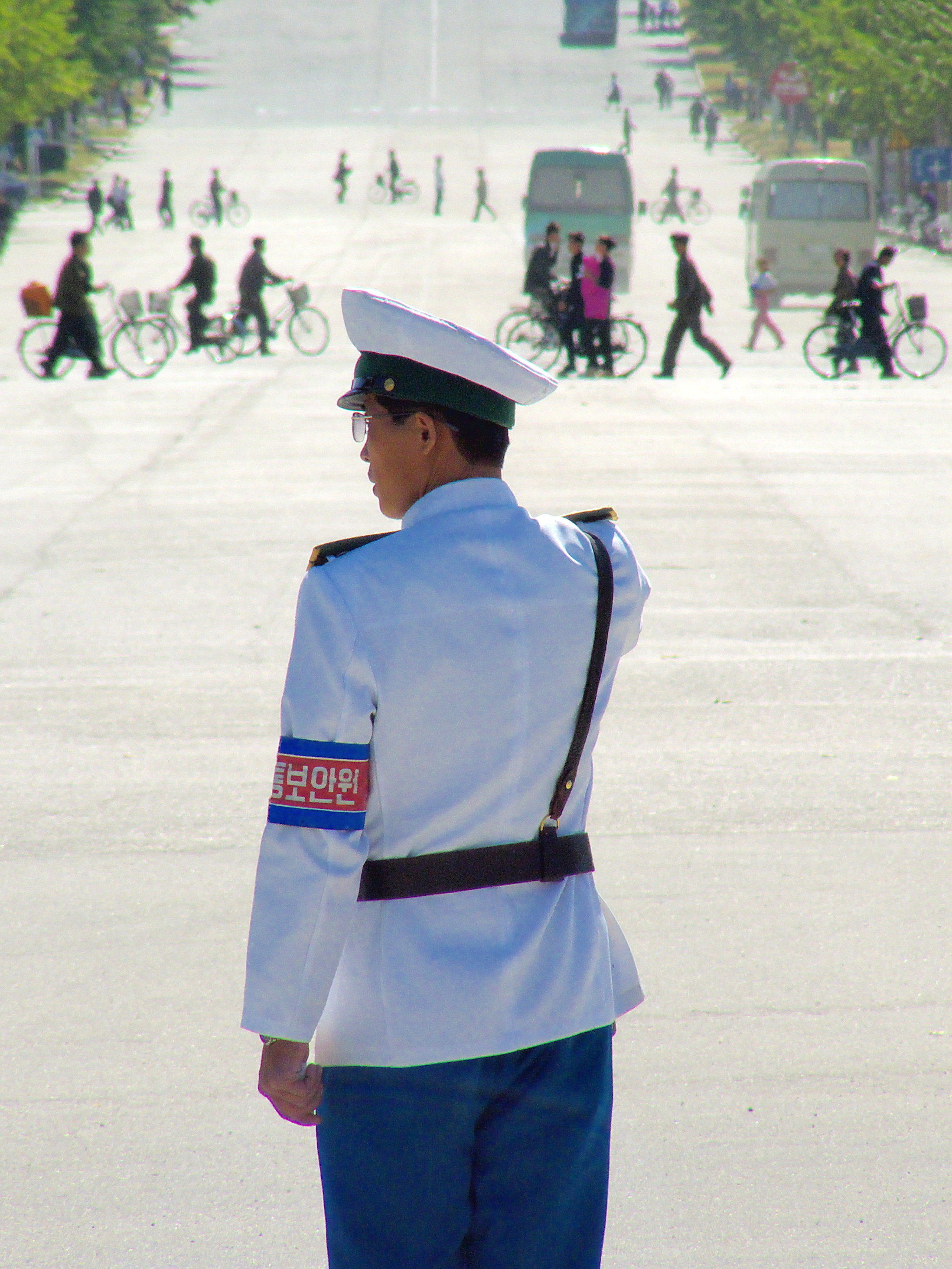 Traffic controllers like the one pictured are a common sight in the major cities. Due to the fuel shortage in the country, it is actually easier to have someone to direct the traffic all day than it is to power traffic lights. Our local guide claims the choice of traffic controllers over traffic lights is to reduce pollution. Right.Kaesong, North Korea